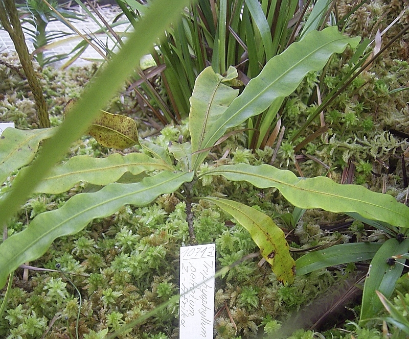 Triphyophyllum peltatum of Botanischer Garten Bonn (Botanical Garden, Bonn, Germany) Author: Denis Barthel